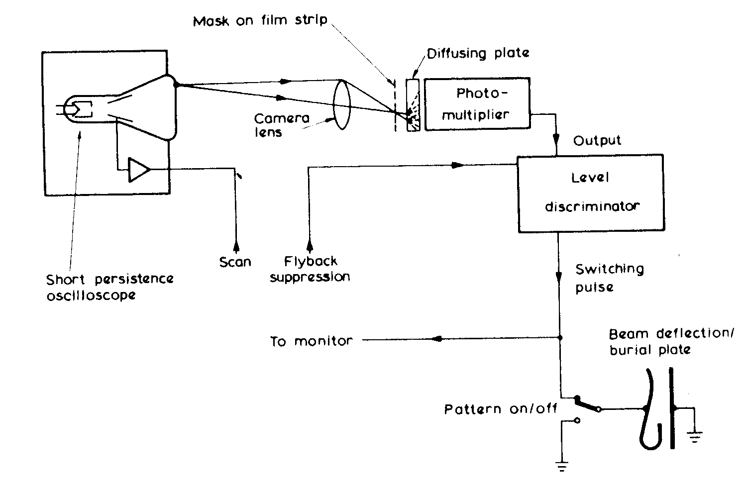 Flying spot electron beam lithography